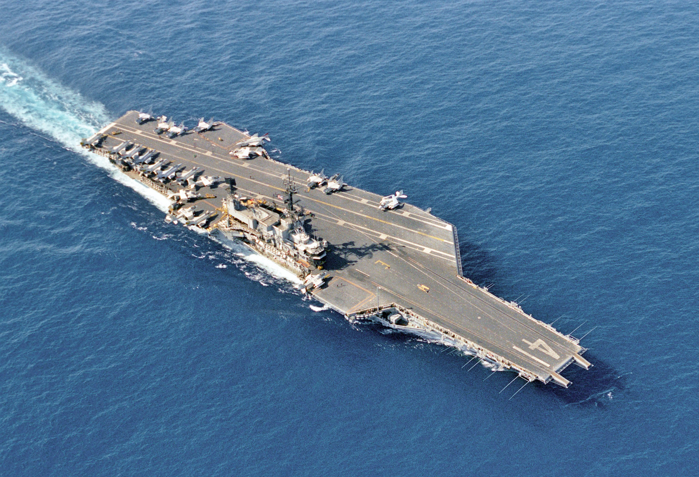 An elevated starboard bow view of the aircraft carrier USS MIDWAY (CV 41) underway off the coast of Okinawa, Japan.